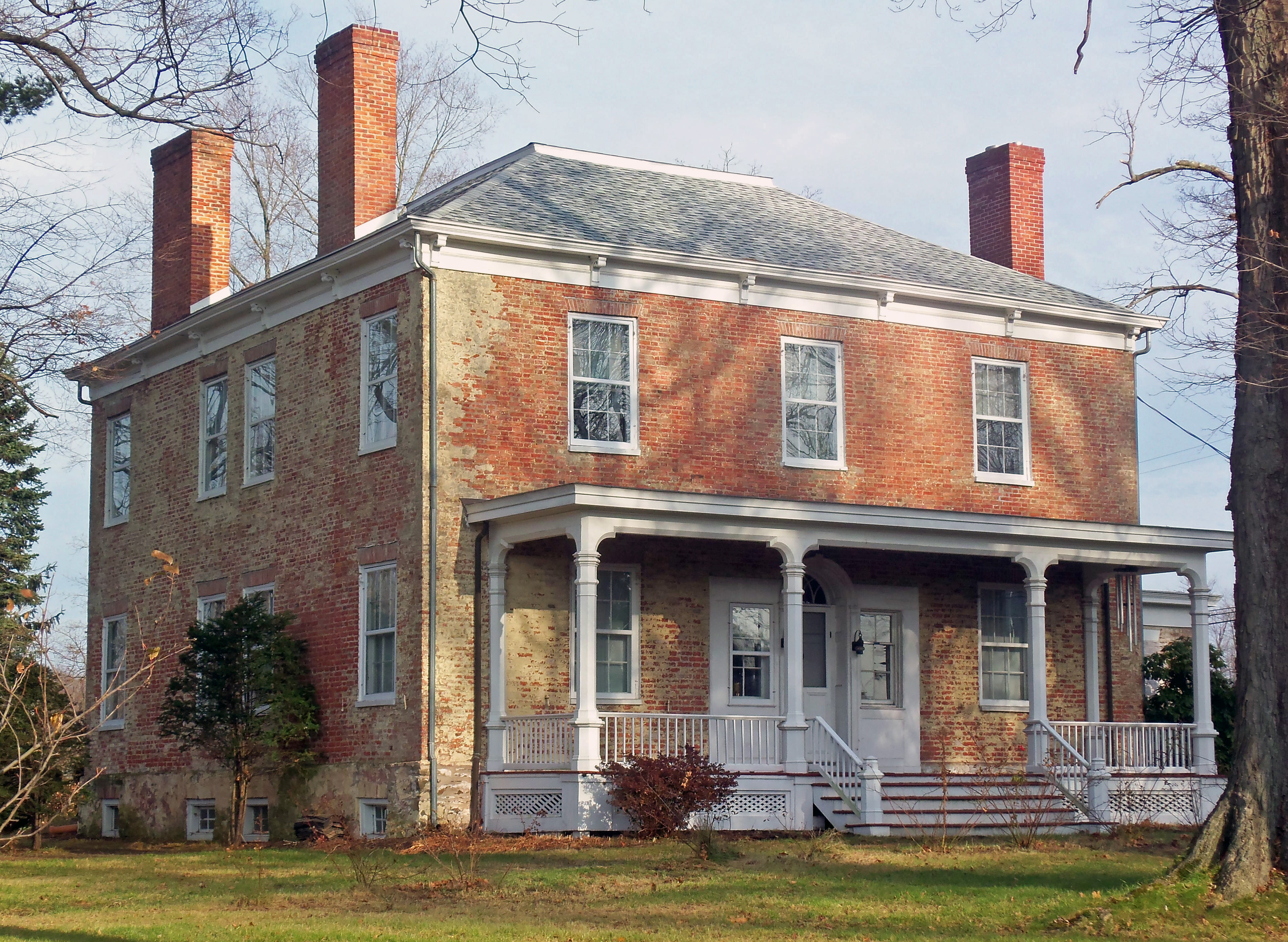 Thomas Broadhead House, Clermont, NY, USA